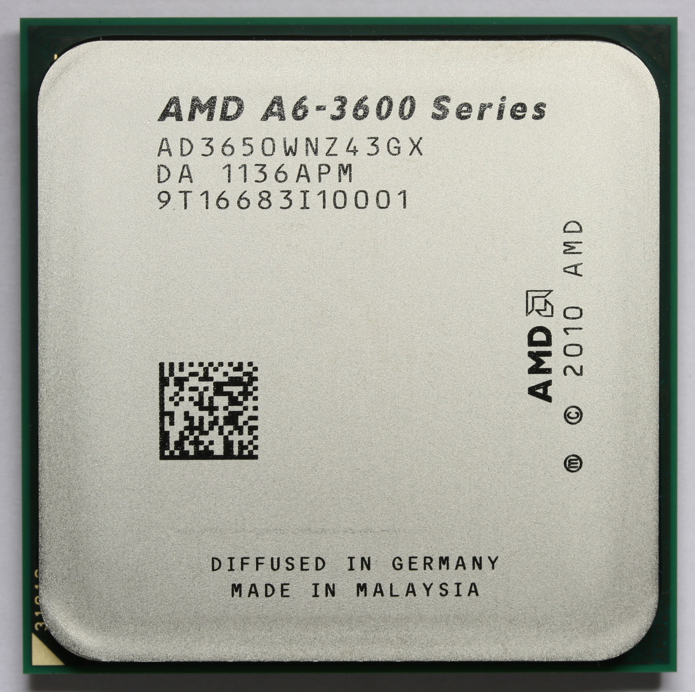 Top view of an AMD A6-3650 (AD3650WNZ43GX) CPU